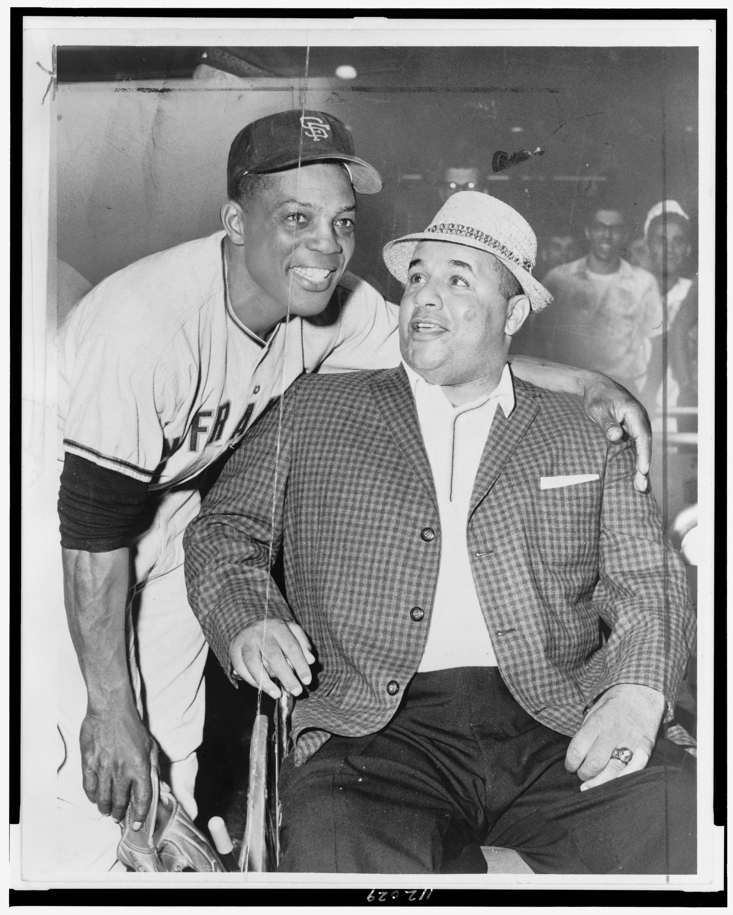 Willie Mays, standing, wearing baseball uniform, with arm around shoulders of Roy Campanella, seated / World Telegram & Sun photo by William C. Greene.